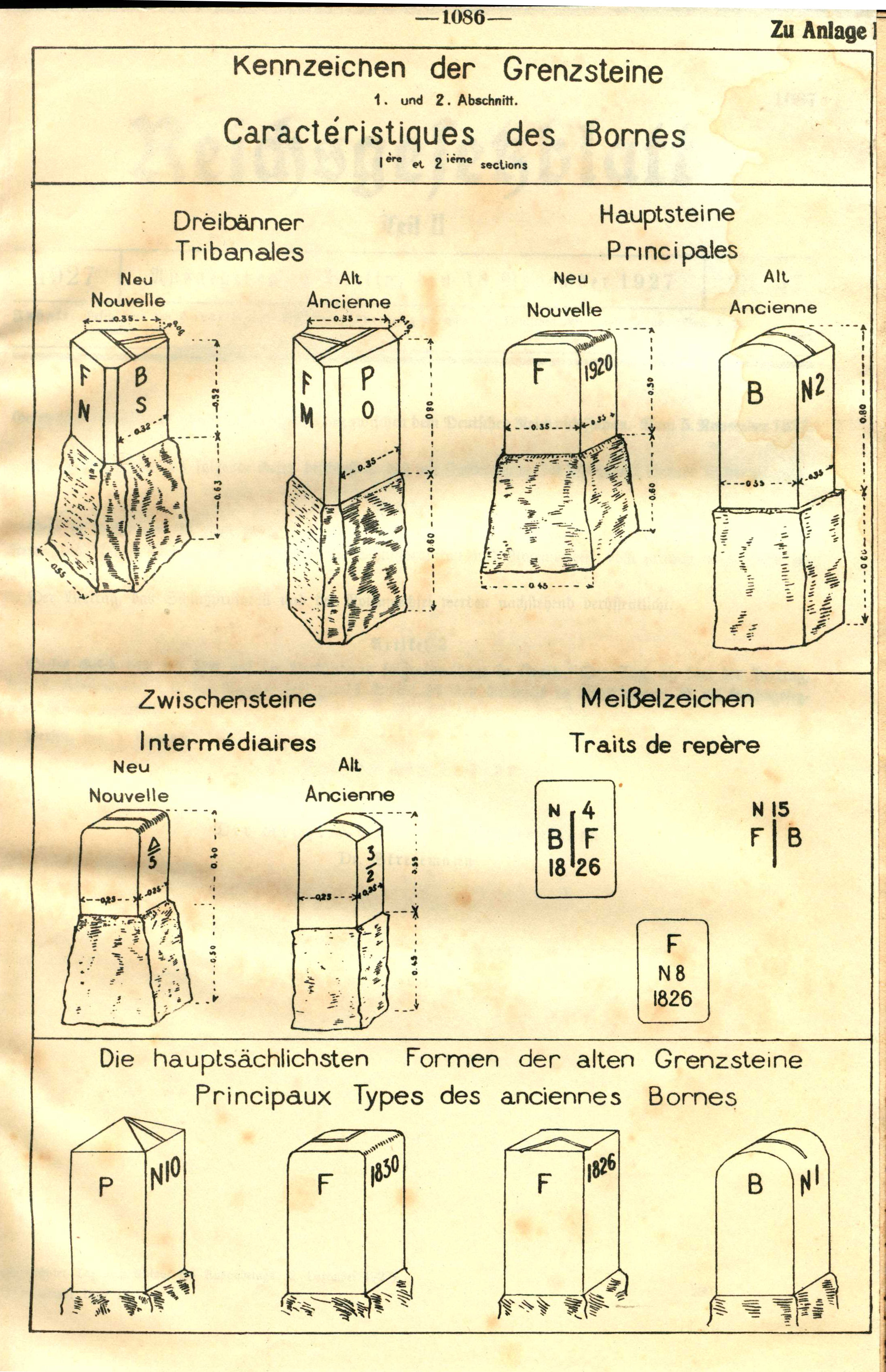 Scan from the Imperial Law Gazette of Germany, 1927, part 2